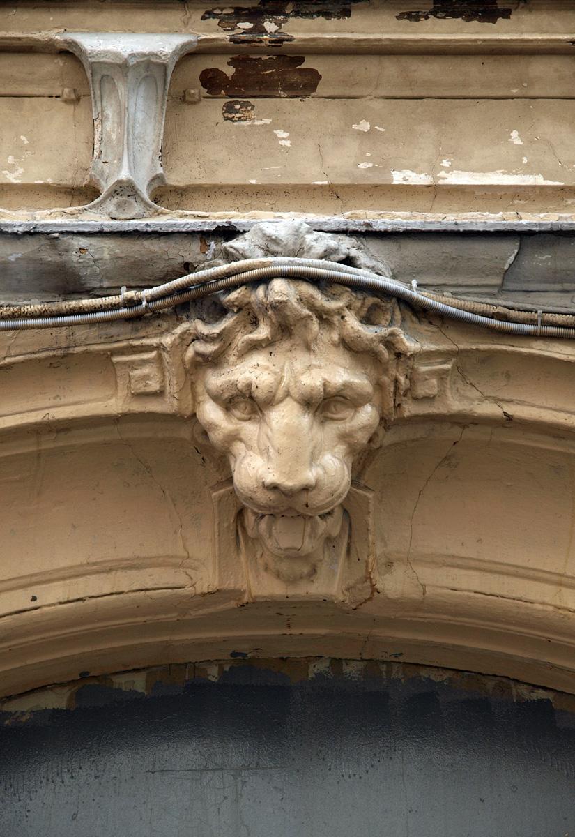 Former Bykov building in Moscow, designed by Lev Kekushev, was burnt down 16/09/2009 to make way for new development. Lion's head is Kekushev's signature.